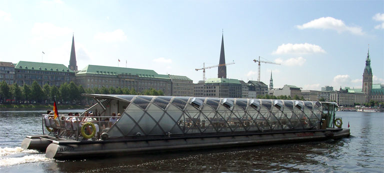 Solar ship Alstersonne at the Binnenalster in Hamburg, Germany.